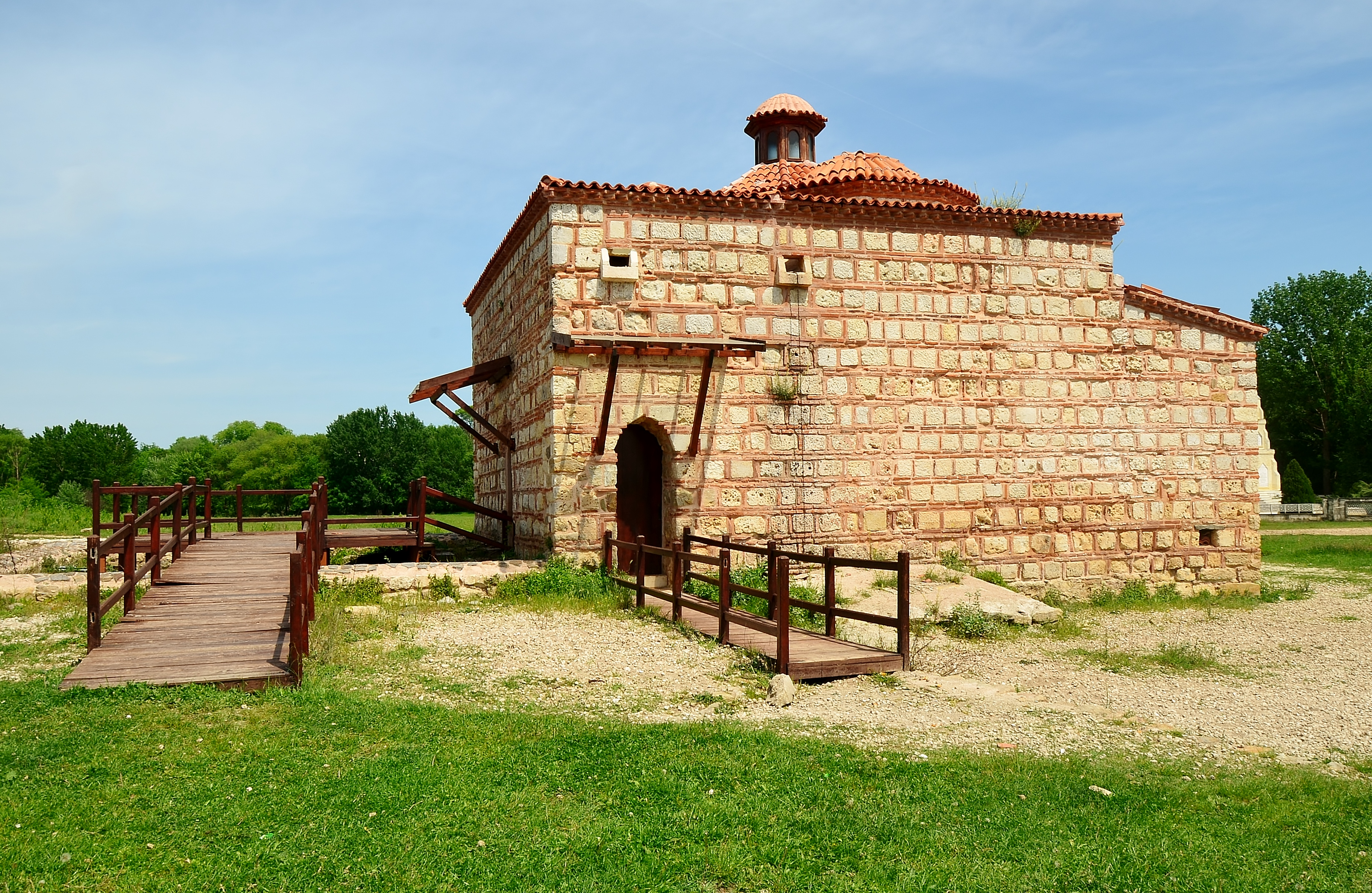 Kum Kasrı Hamam (Kum Pavillion Hammam) of Edirne Palace, Turkey